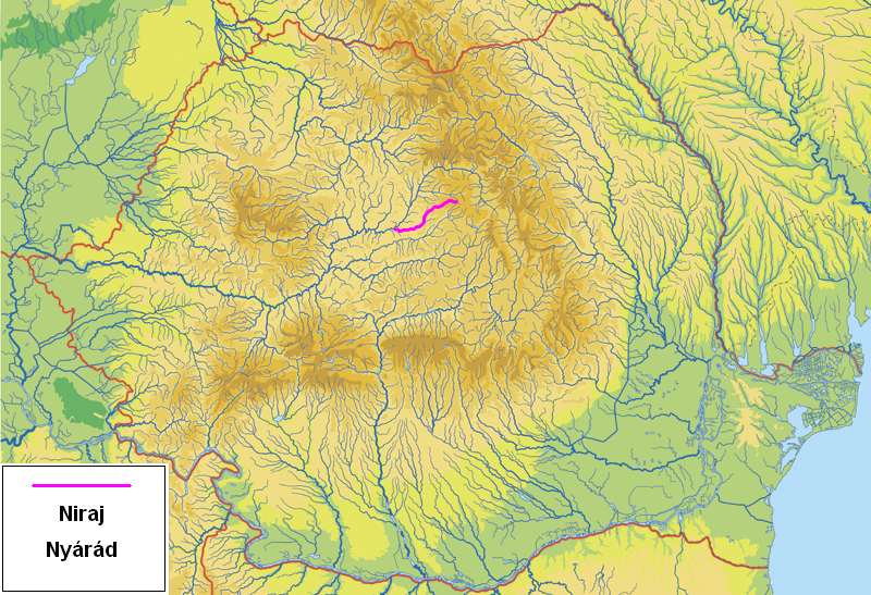 Topographic map of Romania with Niraj river highlighted.